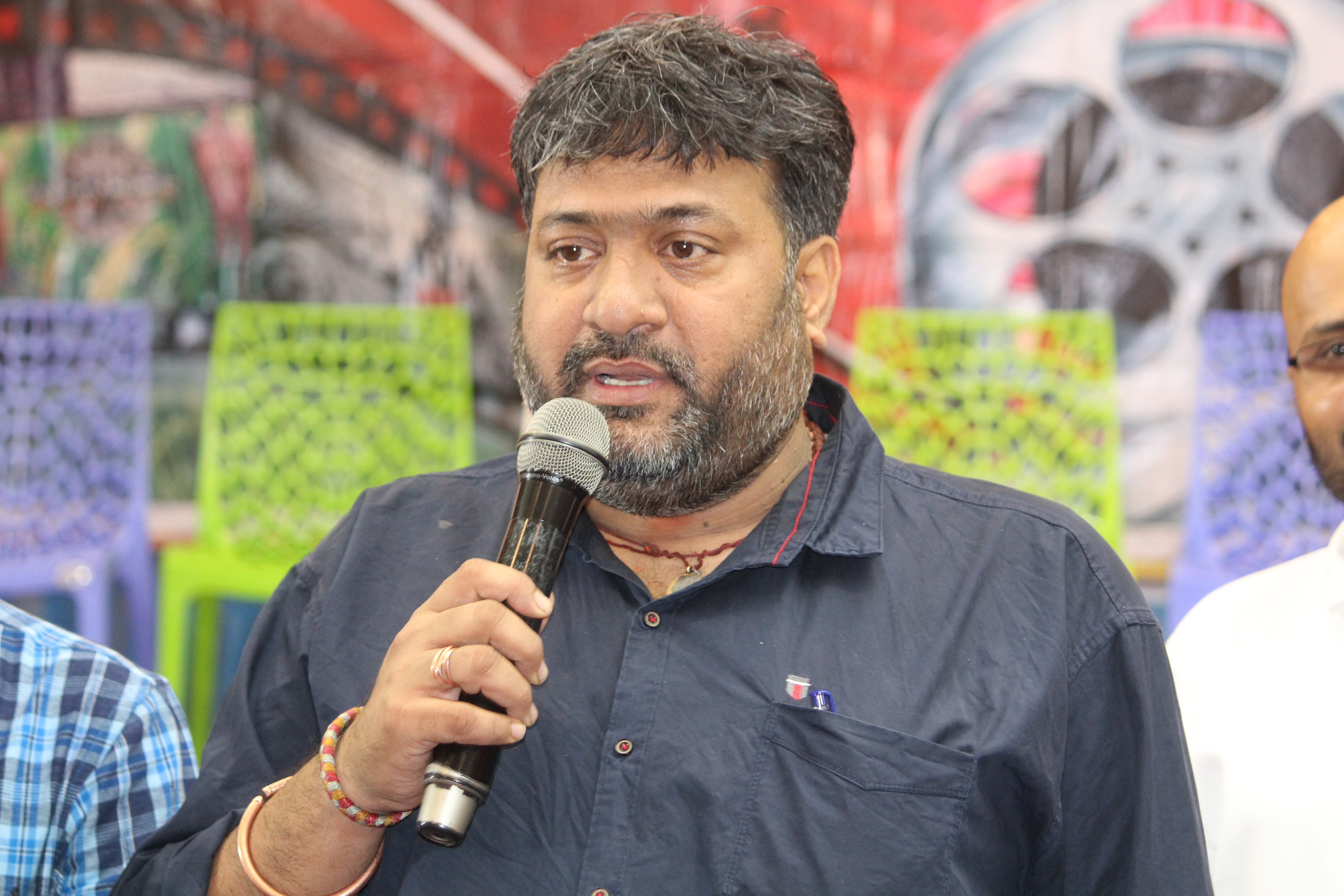 Sekhar Suri Telugu Film Director in Paidi Jaoraj Preview Theatre, Ravindra Bharathi